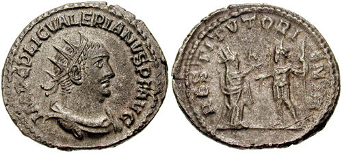 VALERIAN I. 253-260 AD. Antoninianus (22mm, 3.95 gm). Samosata mint. Struck circa 256-260 AD. IMP C P LIC VALERIANVS P F AVG, radiate, draped, and cuirassed bust right RESTITVT ORI-ENTIS, the Orient, standing right, handing wreath to Valerian, standing left RIC V 287; MIR 36, 1685e; RSC 189